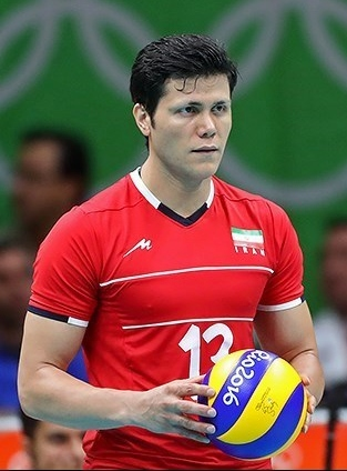 Volleyball, match between Iran and Egypt at the Olympic Games in 2016